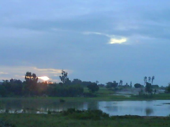 A view of our village near the lake.